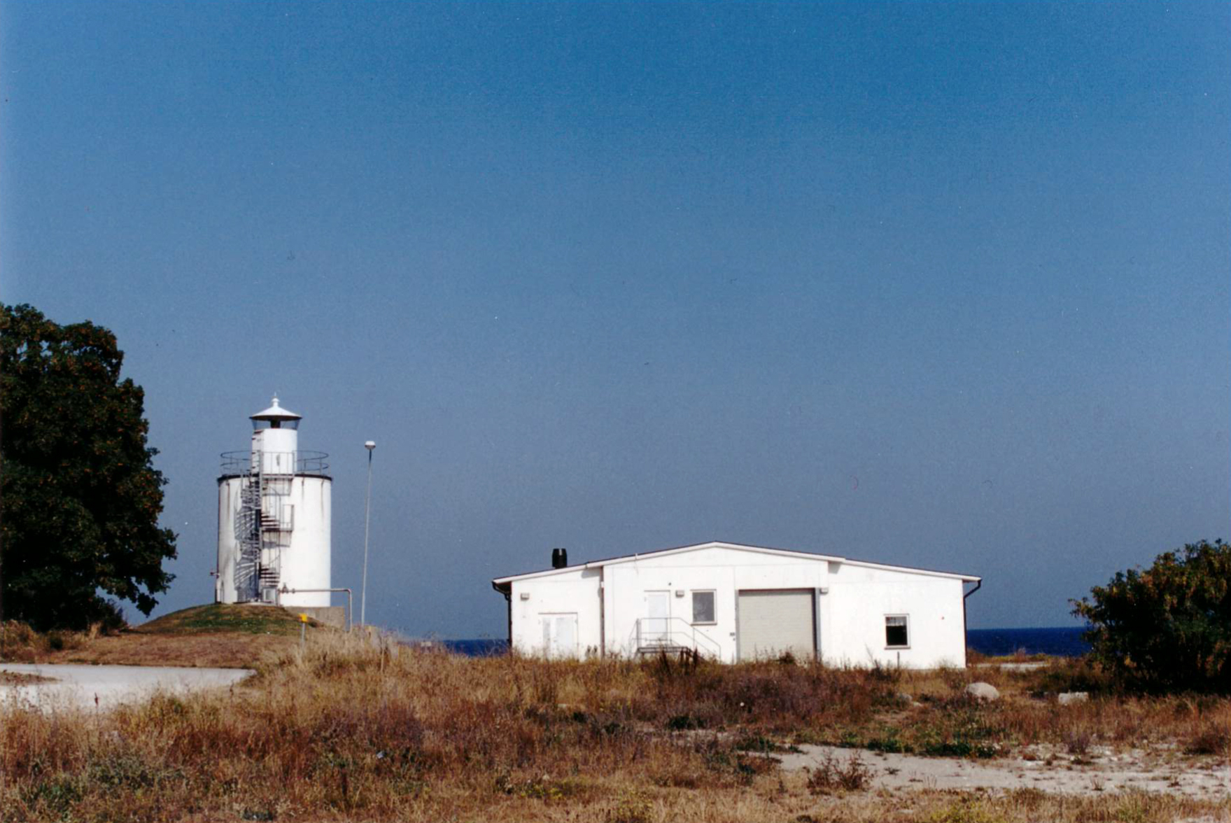 Ljugarn lighthouse and the adjacent house by the pier in Ljugarn, Gotland, Sweden.